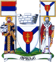 The big Coat of arms of the city and municipality of Arilje in Serbia